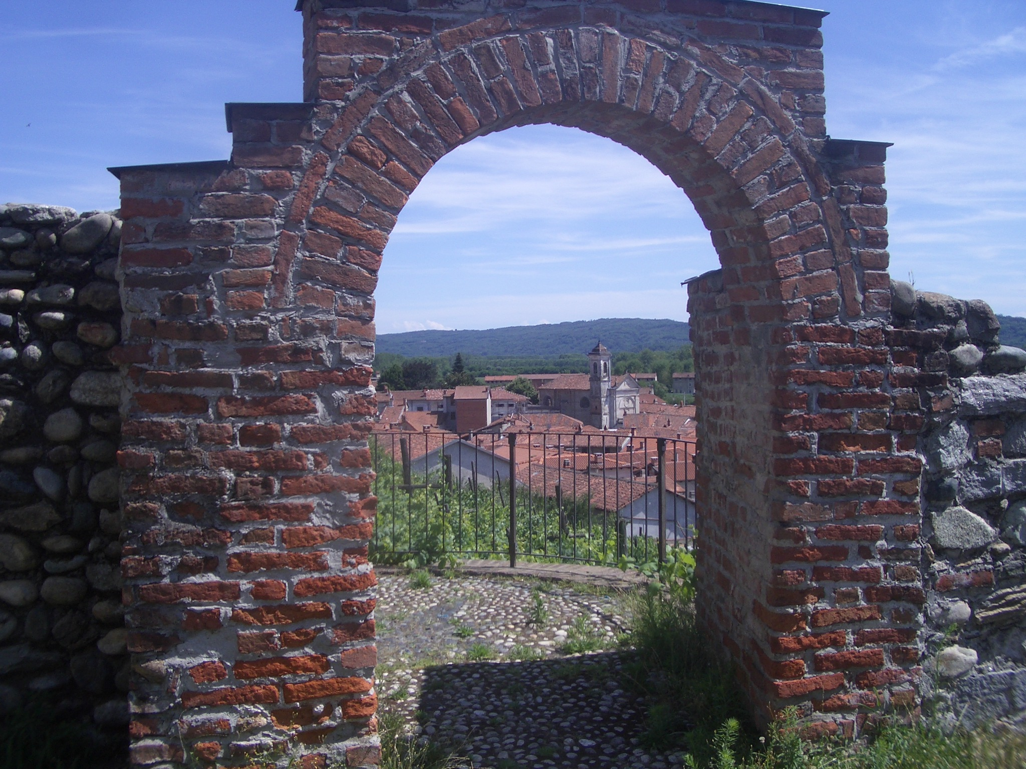 Albiano d'Ivrea, view from the "Ricetto"